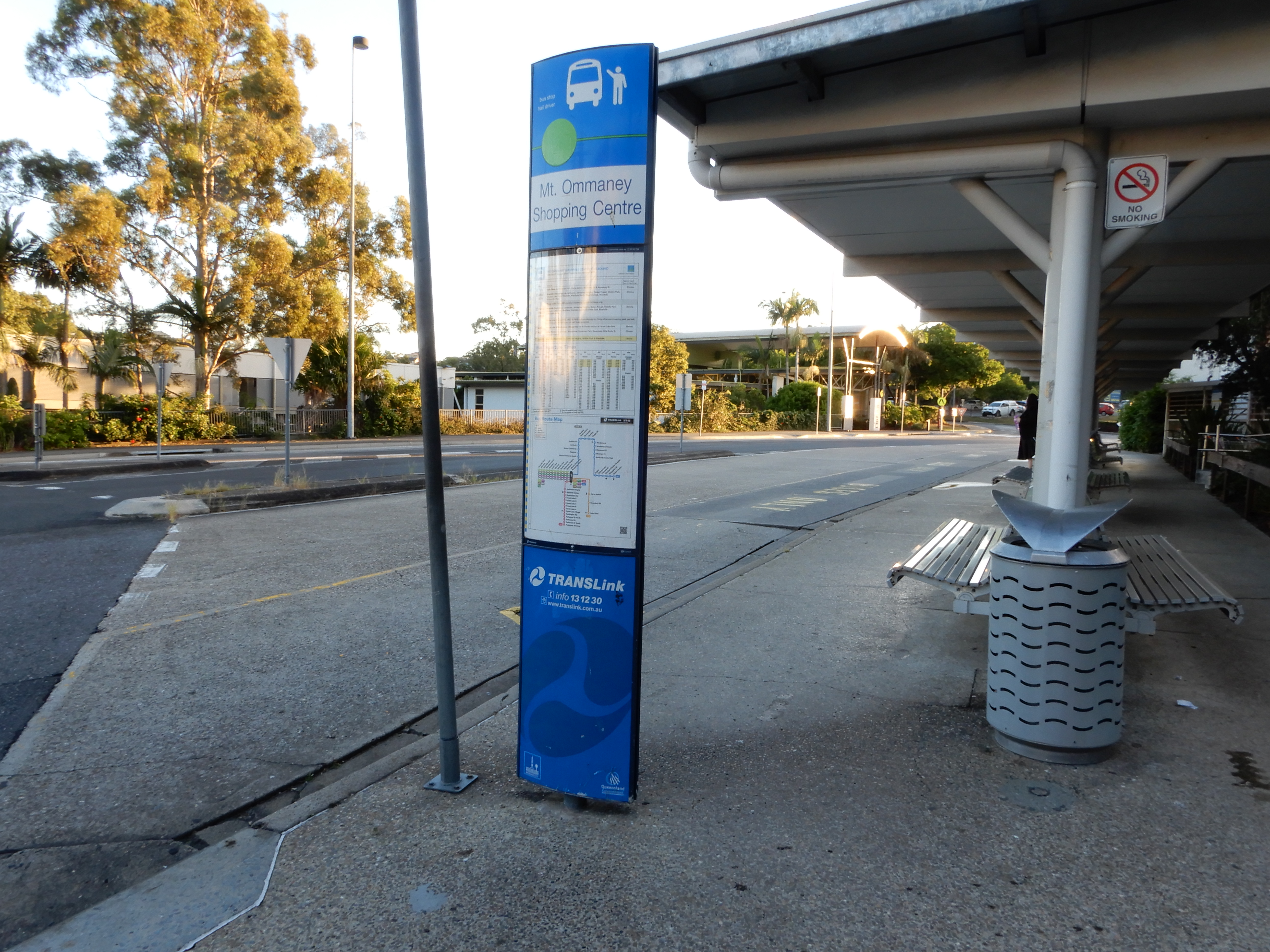 Northbound view of main platform at Mount Ommaney Shopping Centre bus station, taken on May 27, 2019. The bus station's blade (timetable) is visible.